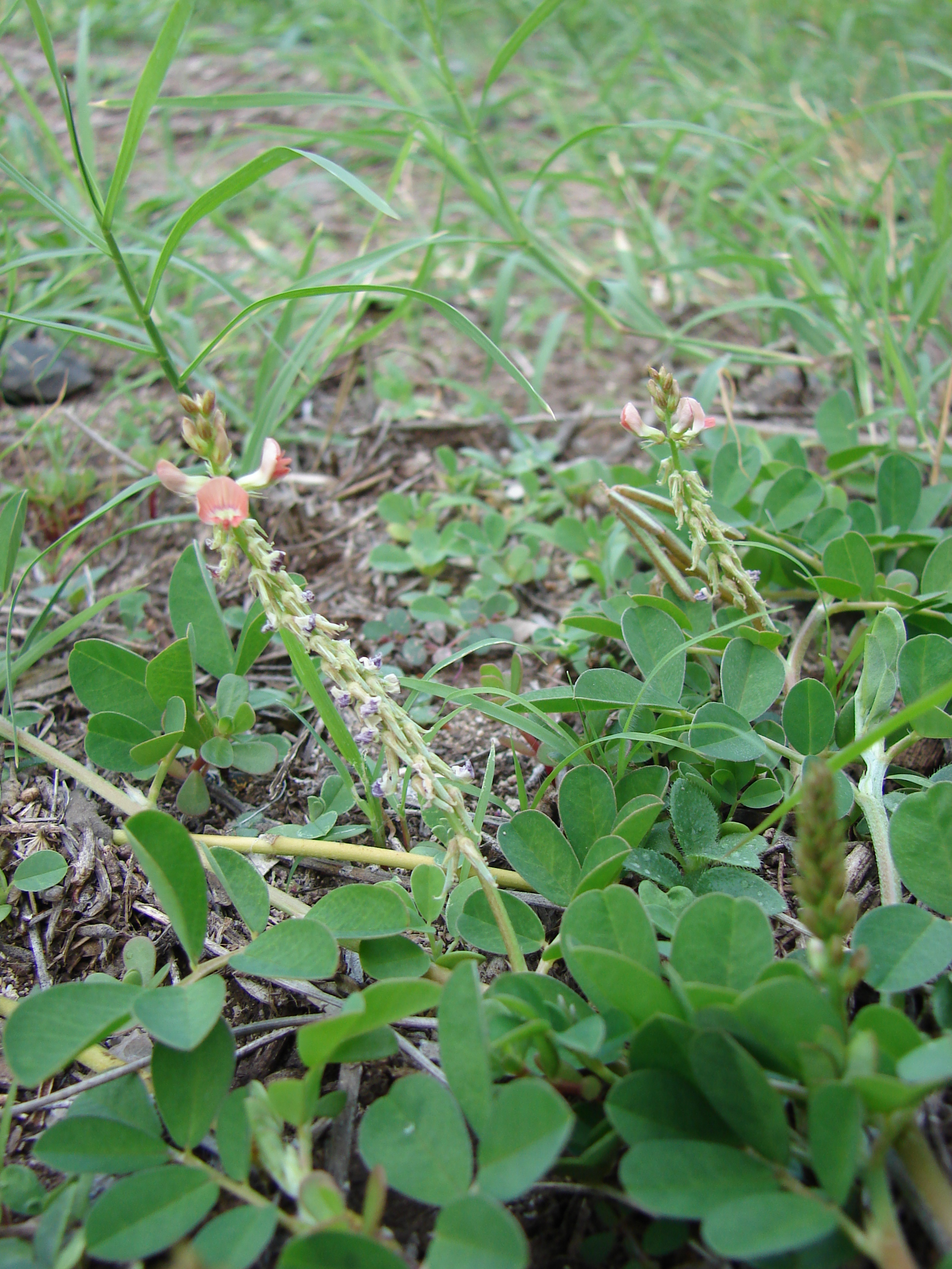 Indigofera hendecaphylla (flowers and leaves). Location: Kahoolawe, Honokanaia